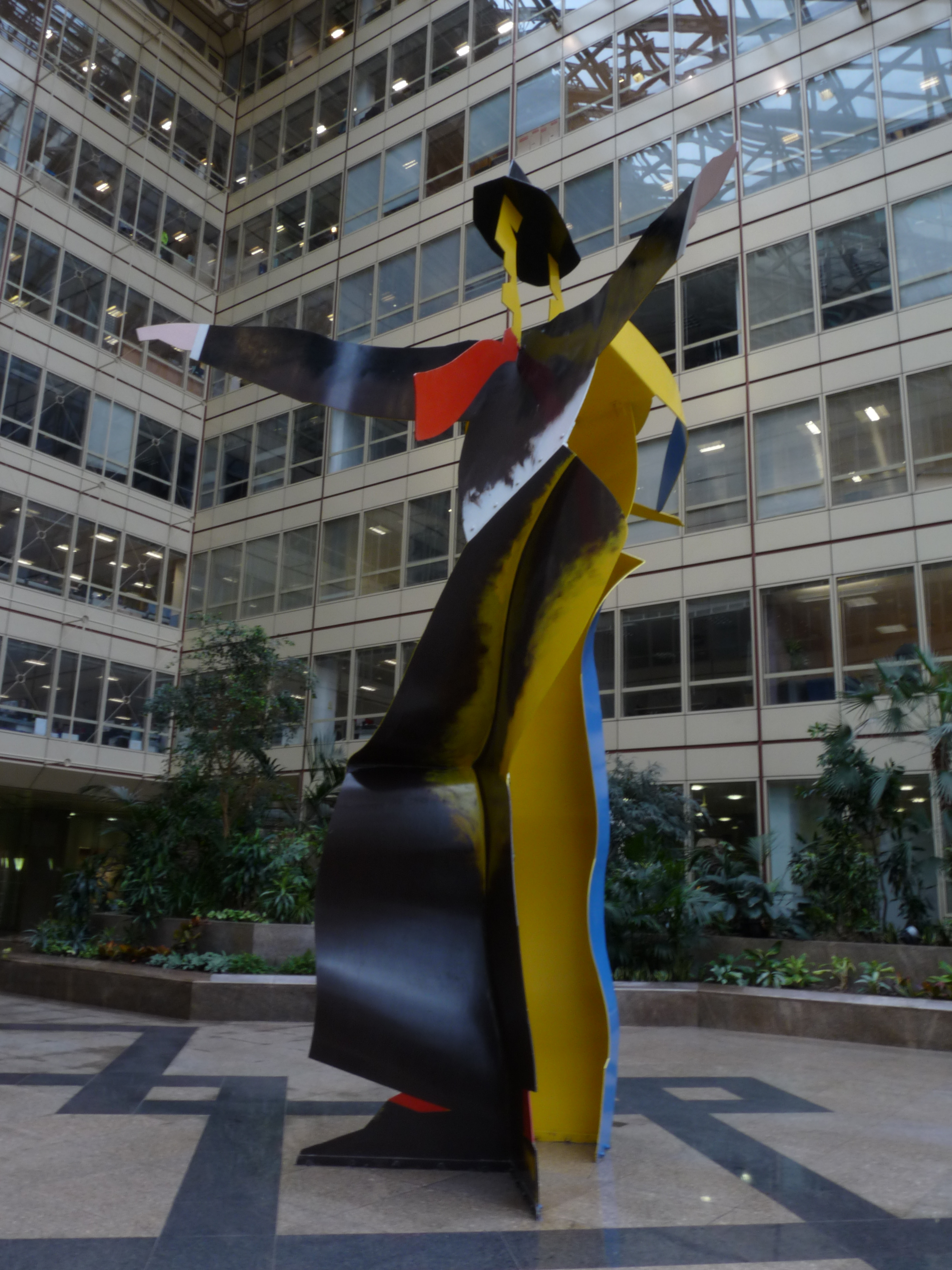 Dancers by Allen Jones is a sculpture in Hay's Galleria between London Bridge station and the south bank of the River Thames in London.